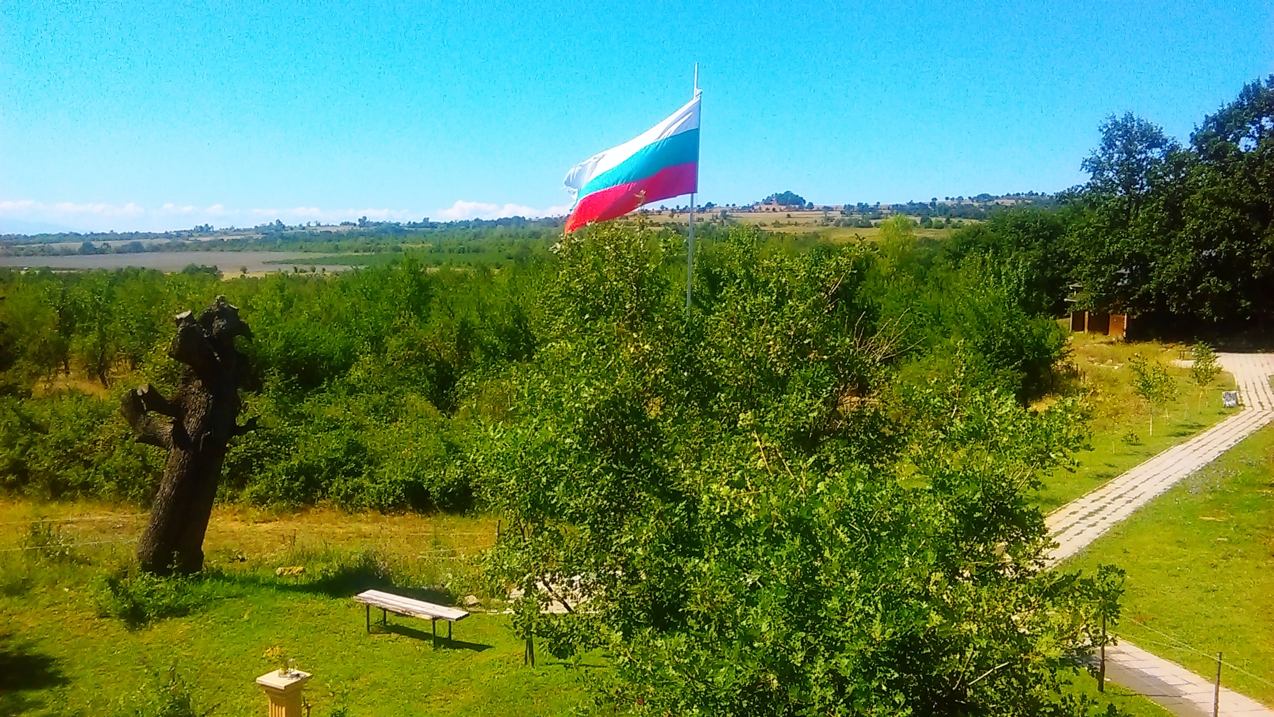 A view from Sveti Spas chapel near Starosel, Plovdiv province, Bulgaria